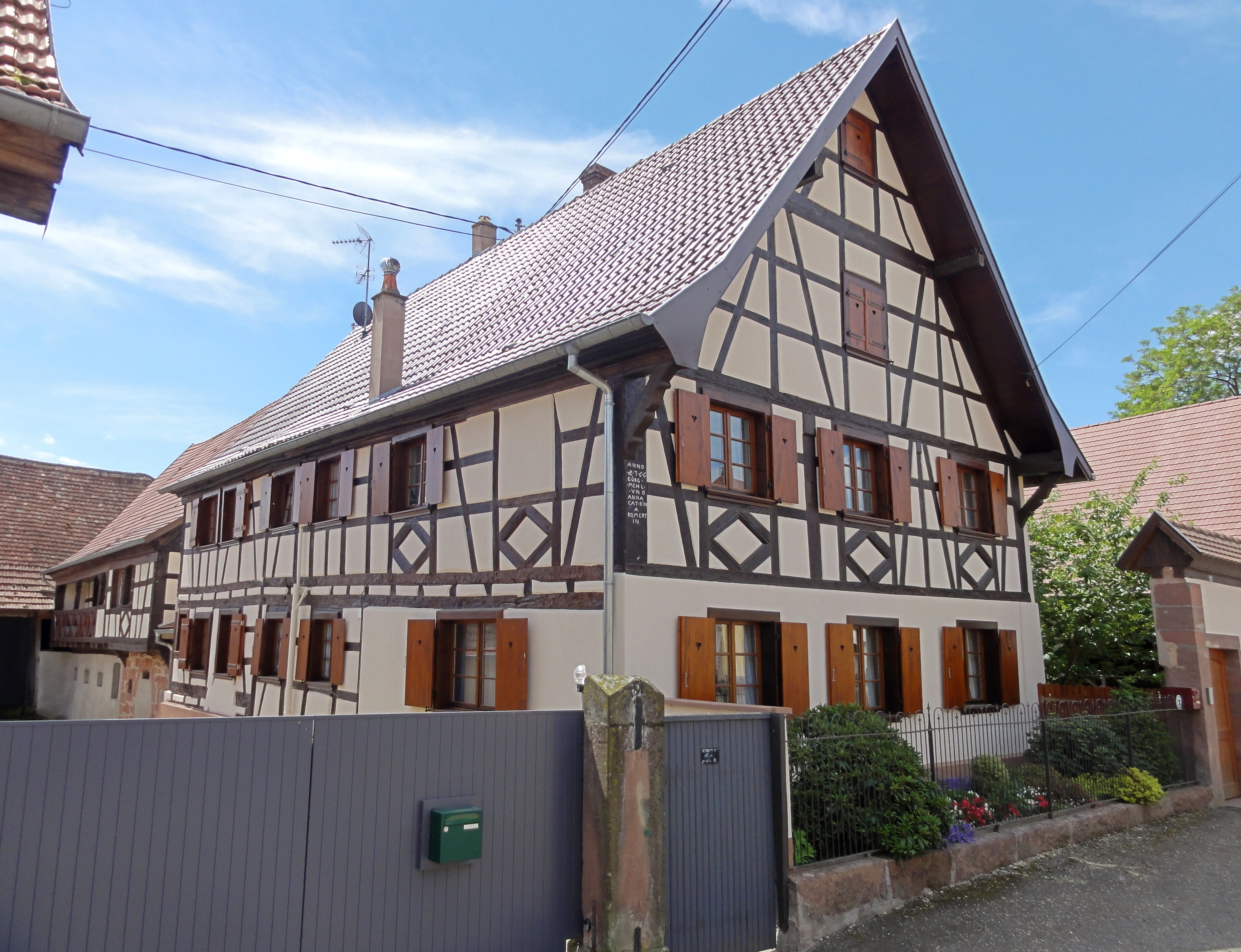 Alsace, Bas-Rhin, Wickersheim, Maison (XVIIIe), 17 rue Principale.